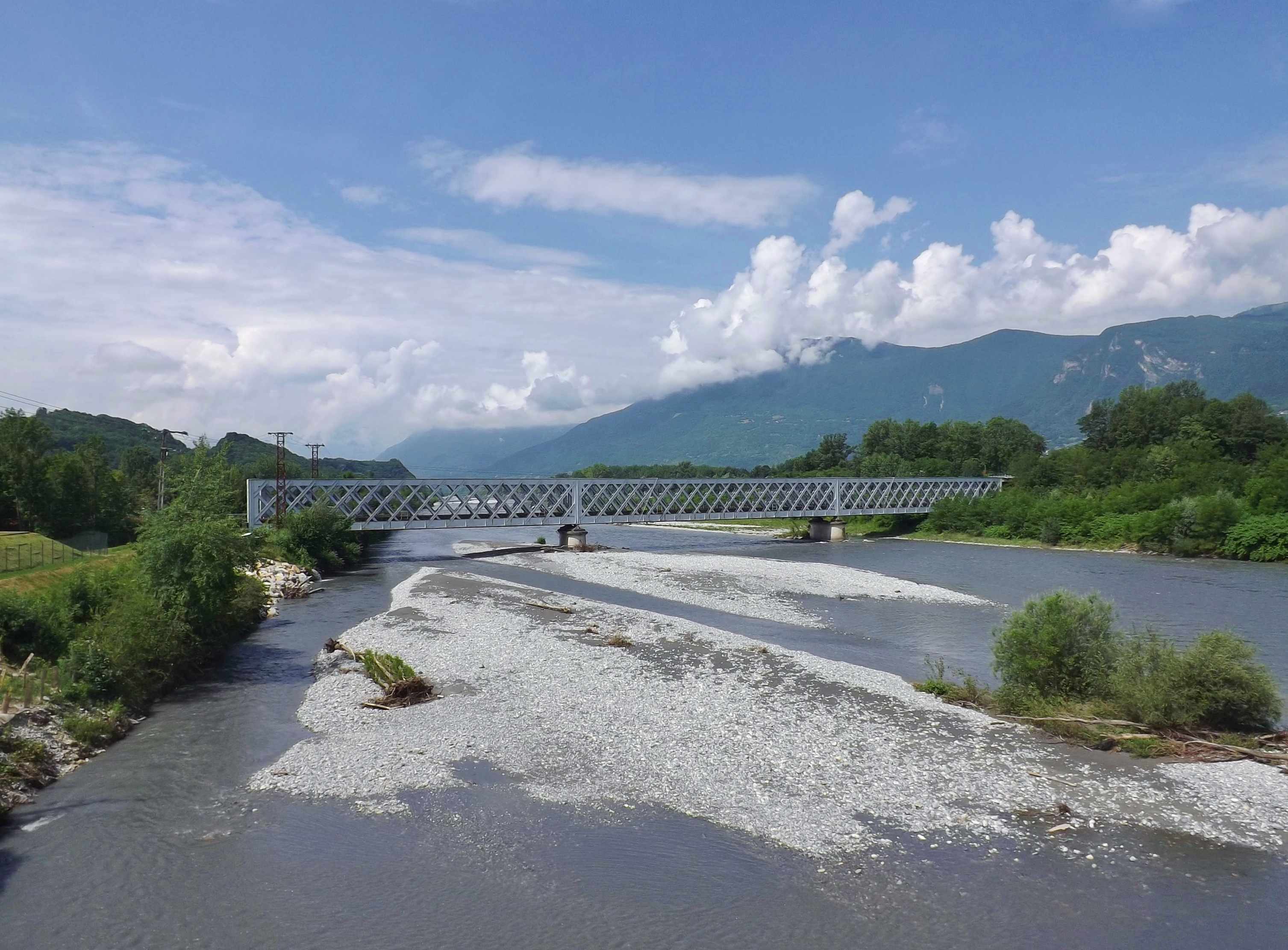 Sight of the Maurienne line (from Culoz to Italy by Chambéry) railway bridge crossing the river Isère in Savoie, France.